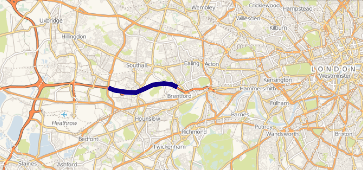 The location of the M4 motorway buslane